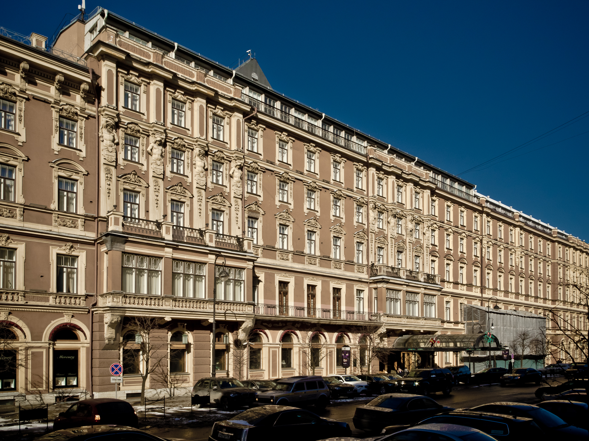 The Grand Hotel Europe in Saint Petersburg